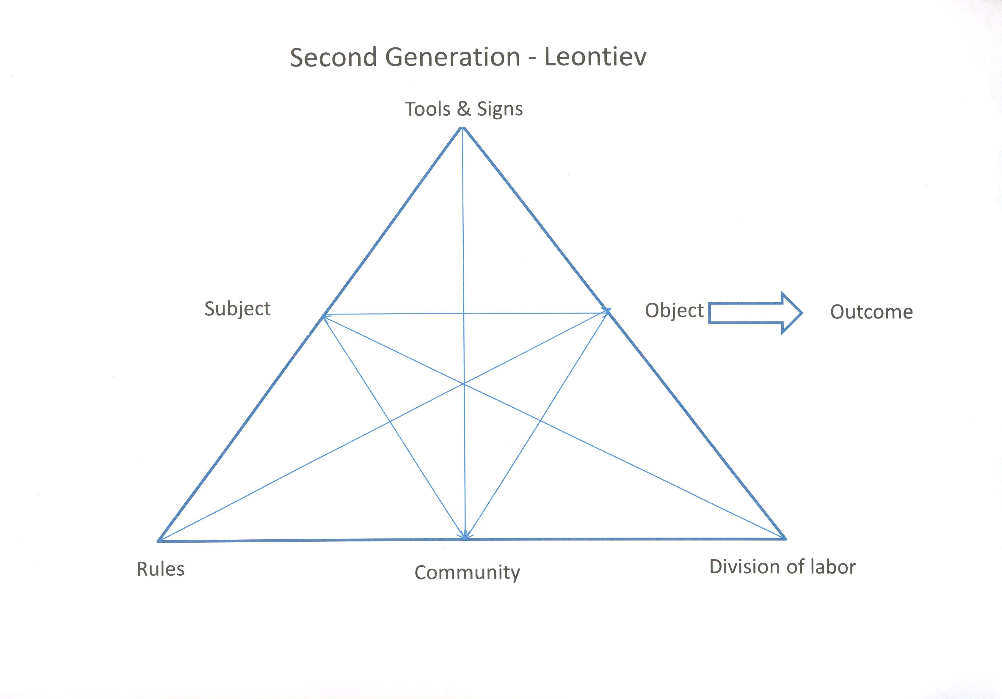 A representation of Second Generation CHAT: collective activity, mediational means, division of labor - following Engeström, 1987 ( and Behrend, 2013 (